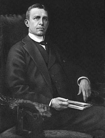 Edward Curtis Smith (1854-1935), Governor of Vermont from 1898 to 1900.